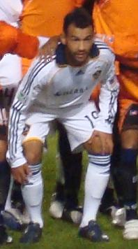 Juninho in the starting line up for the La Galaxy